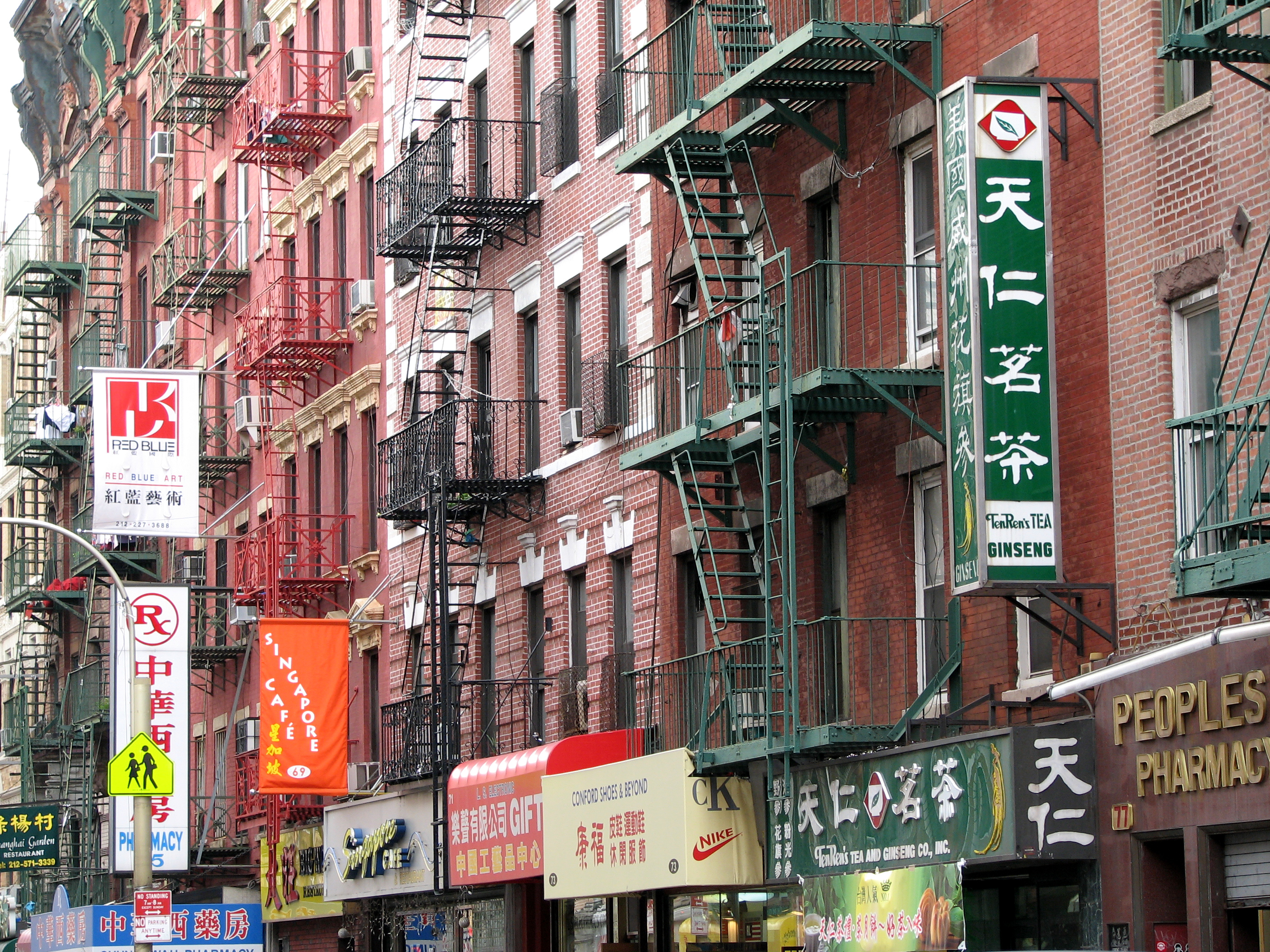 Typical American style fire escapes in Mott Street (Chinatown), Manhattan.